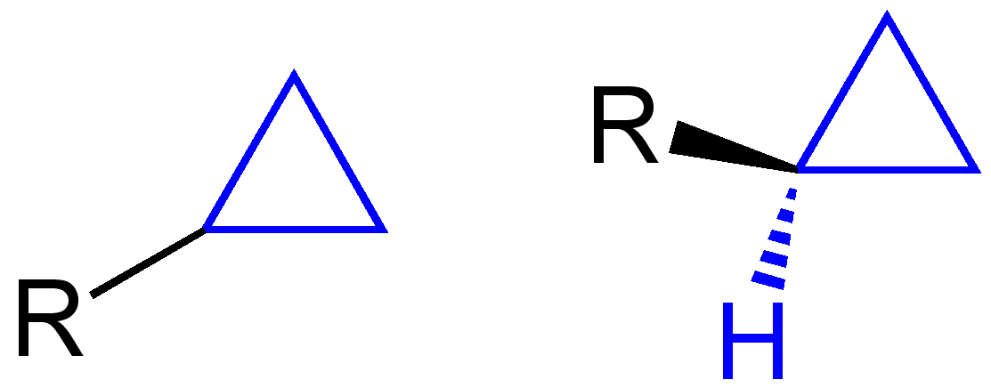 Cyclopropyl_Group_General_Formulae